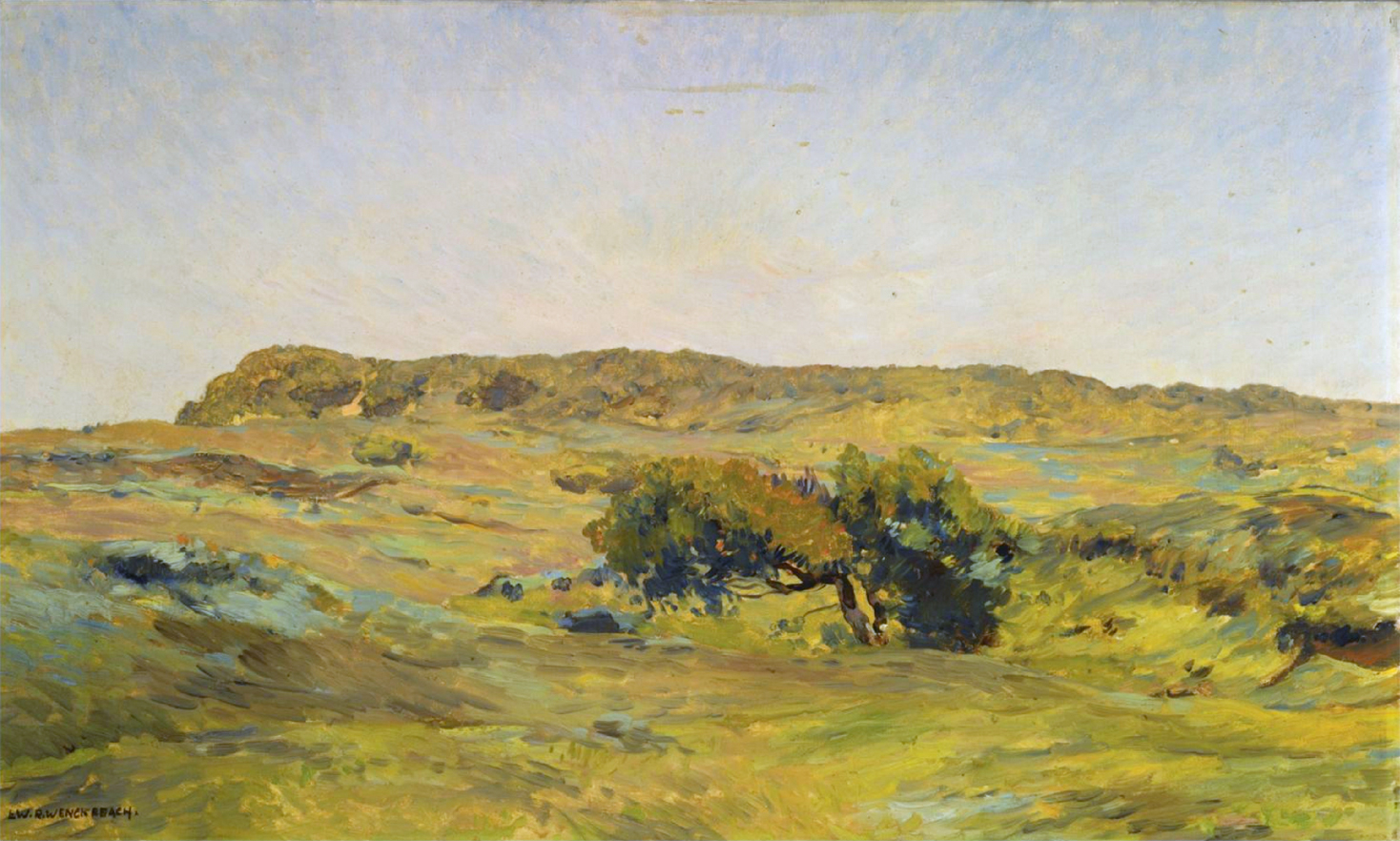 A dune landscape signed l.l. oil on canvas 39 x 65 cm